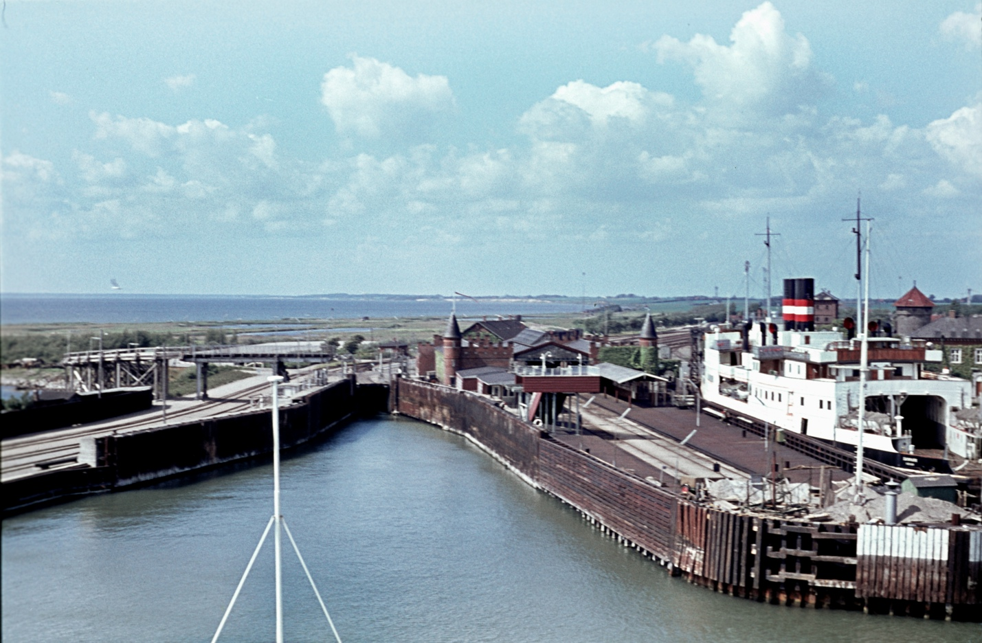 In summer 1963 or 1964 in the Gedser ferry dock the Danish steam ferry Danmark waits for the next trip to Germanyu.